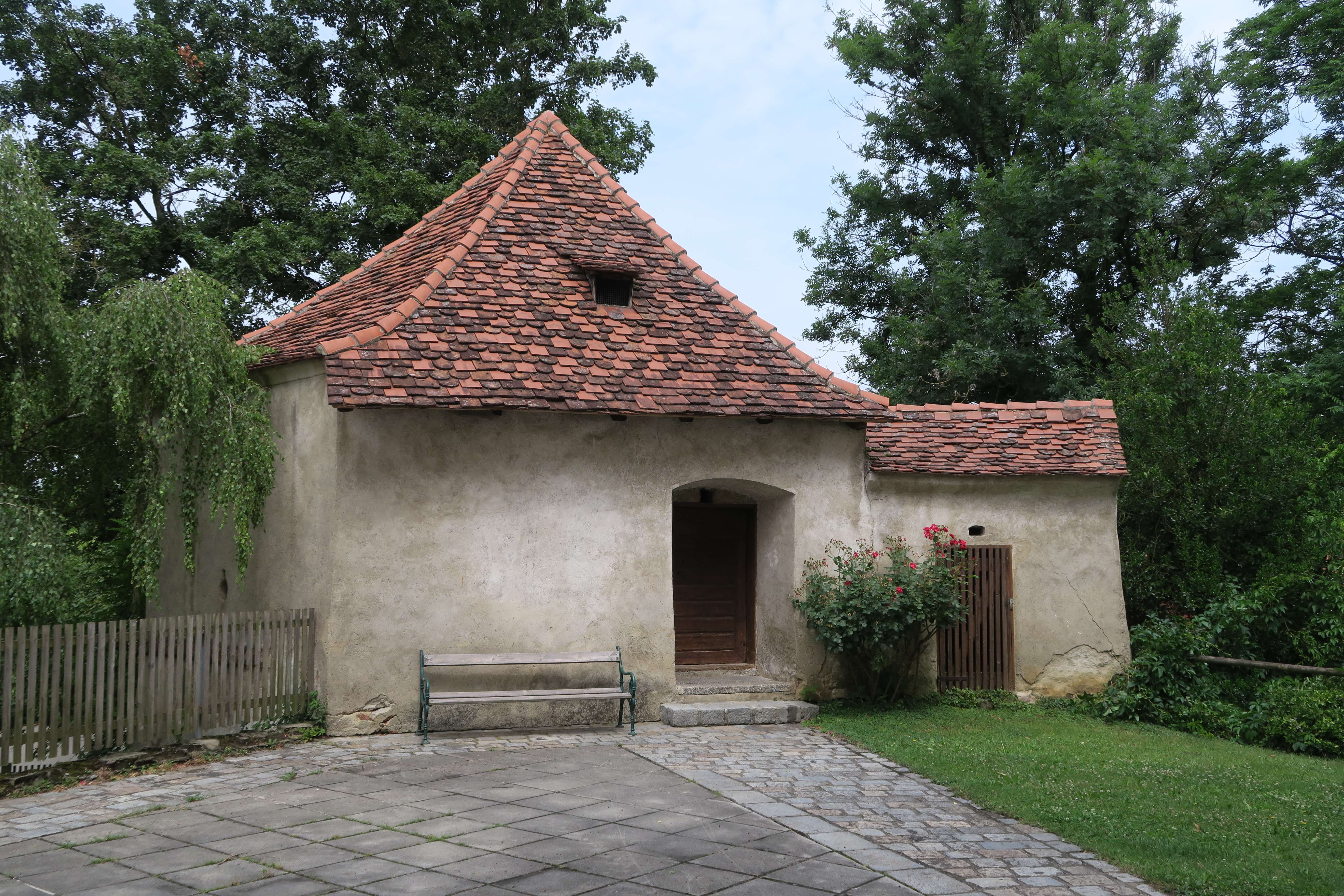 Fehring Tabor